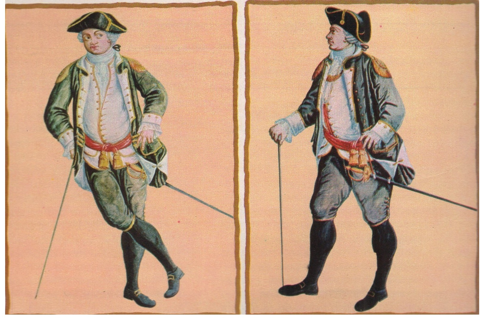 Officers of ordinance troops. Brazil 18th century.